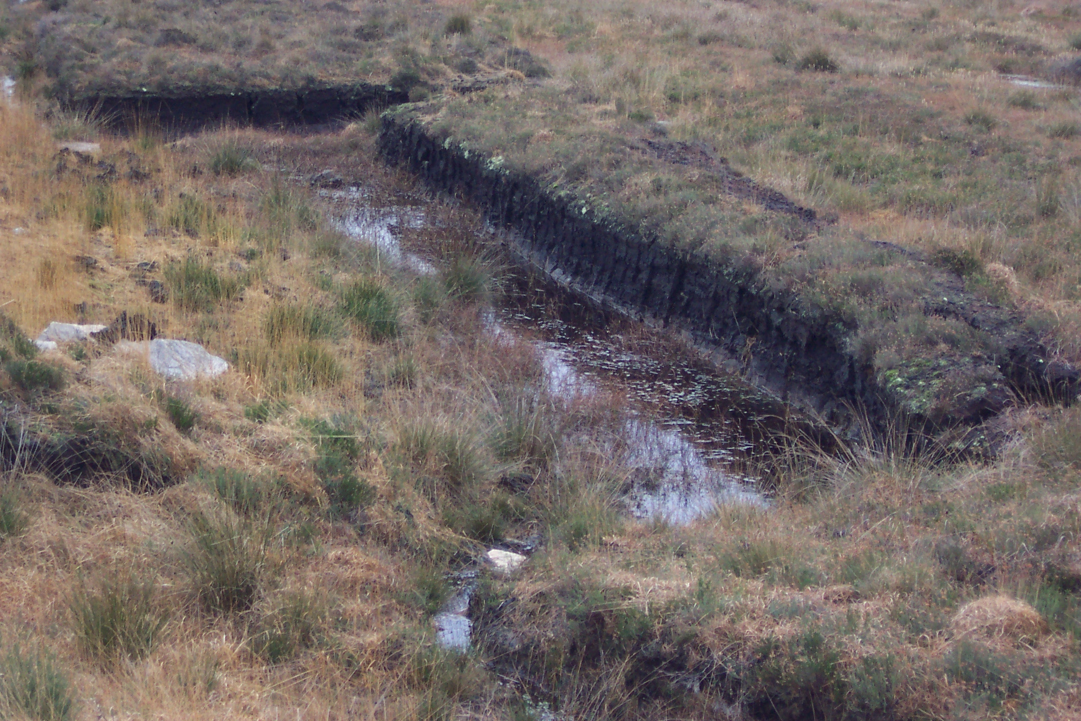 Peat of Connemara, Ireland